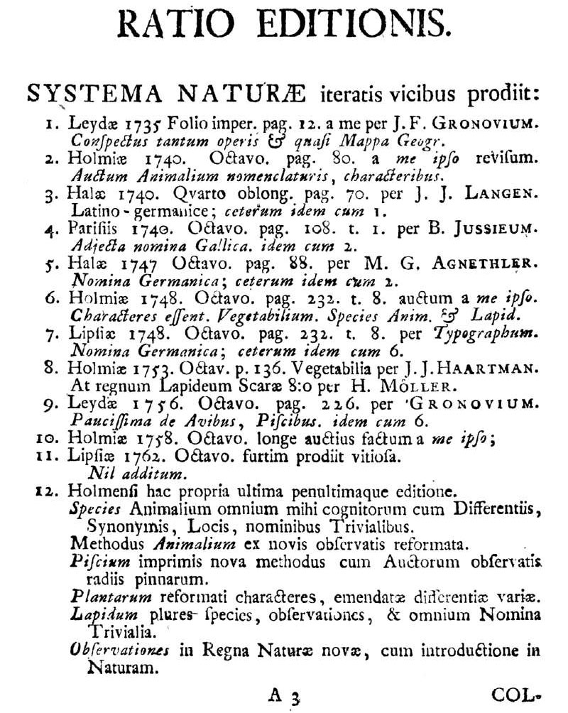 Ratio Editionis form Systema Naturae 12th Edition